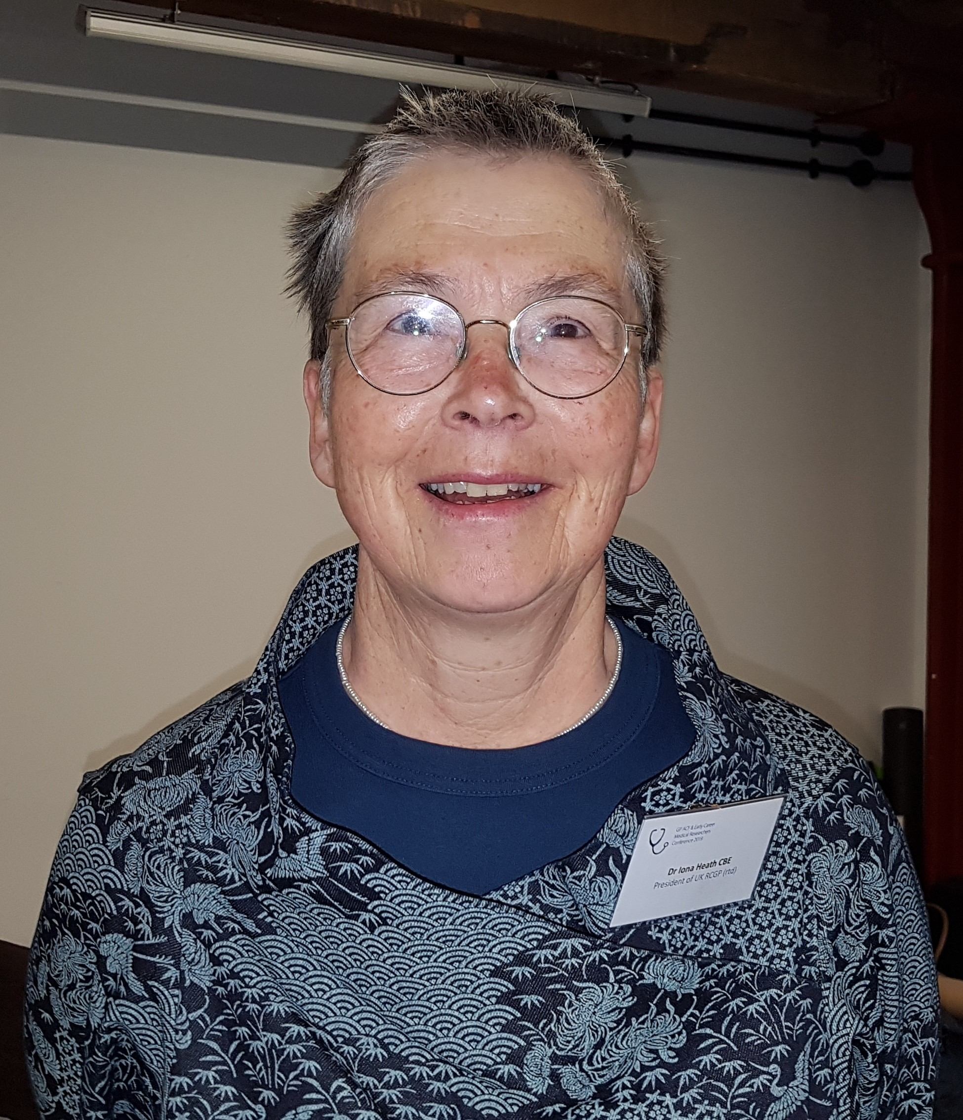 Dr Iona Heath at the National GP Academic Cinical Fellow conference